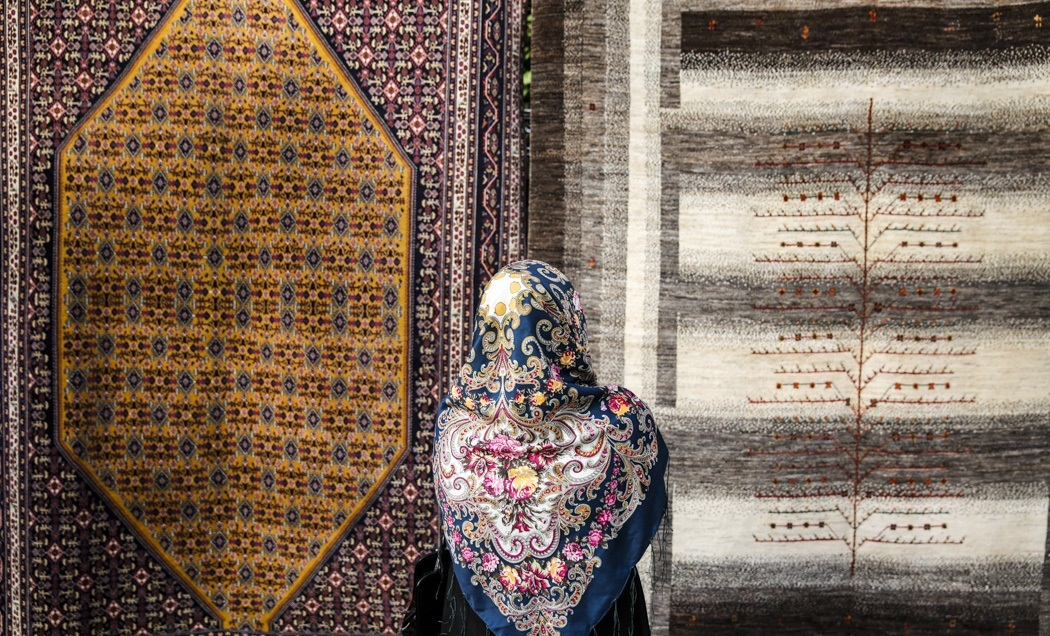 Qashqai handmade gabbeh rug, registration celebration, Afif-Abad Garden, Shiraz - 24 April 2018. main page